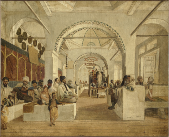 Sanya Synagogue Algiers, (listed elsewhere as Constantine [1]